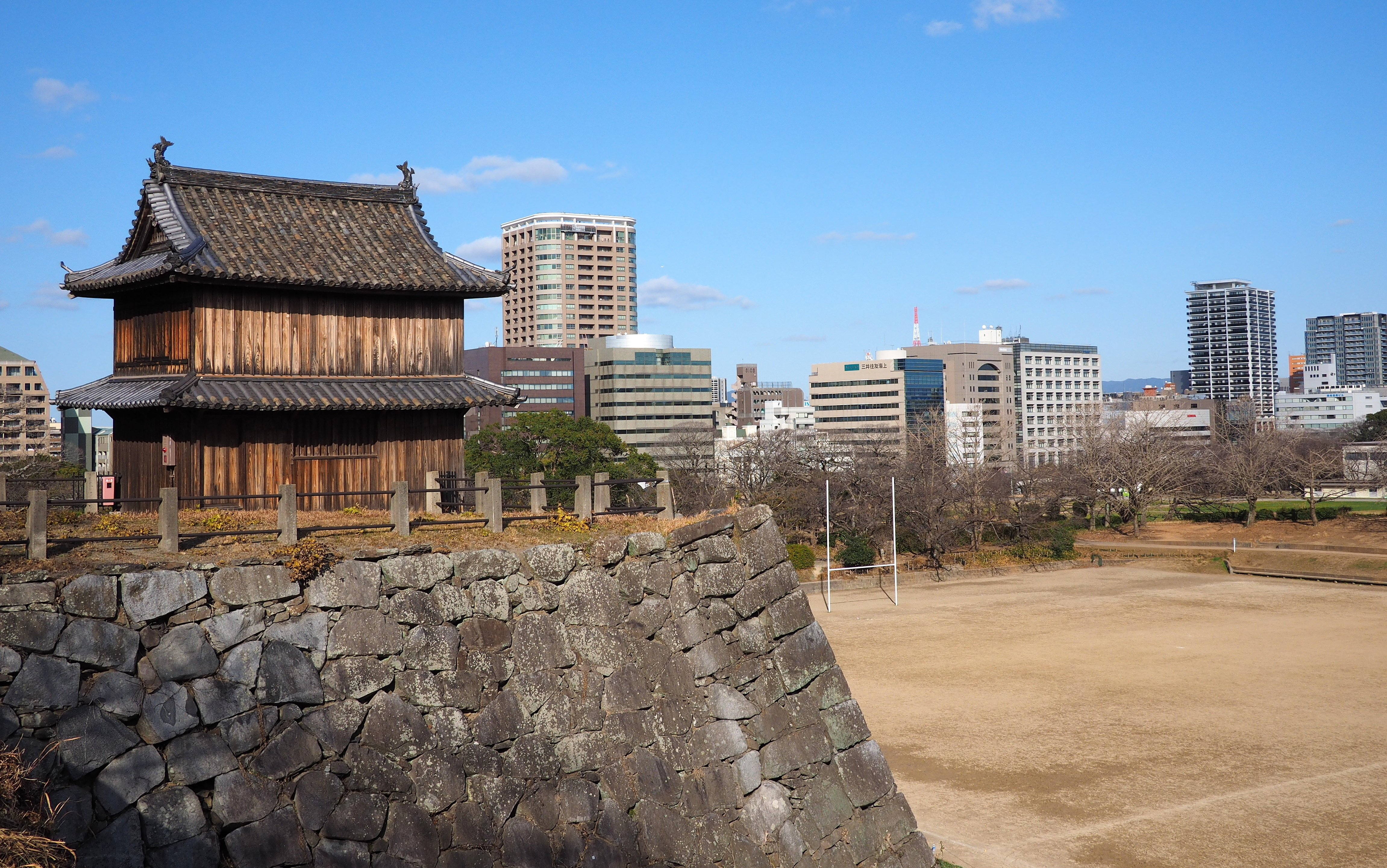 A reconstructed tower at Fukuoka Castle